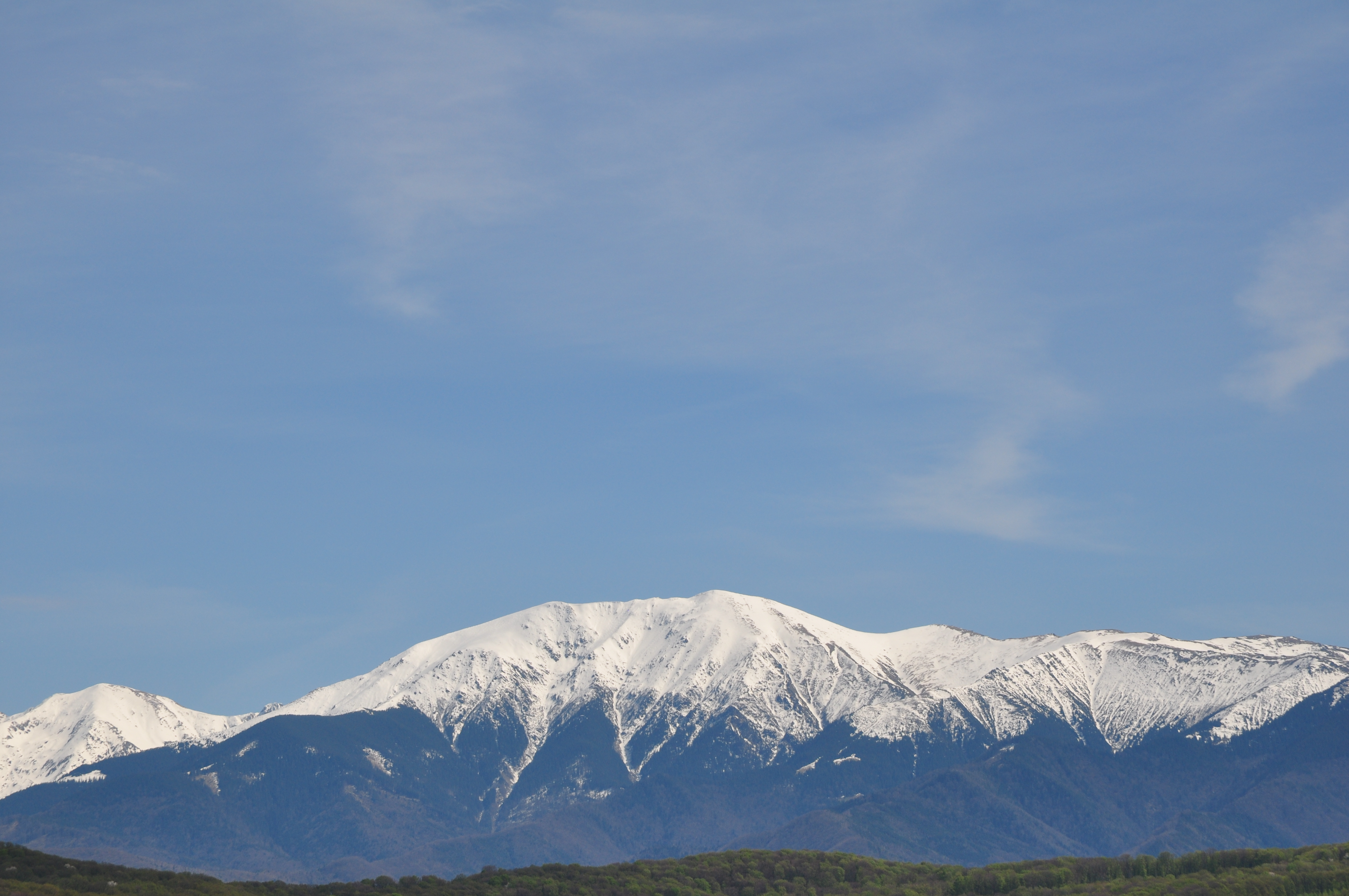 Făgăraș Mountains, Romania